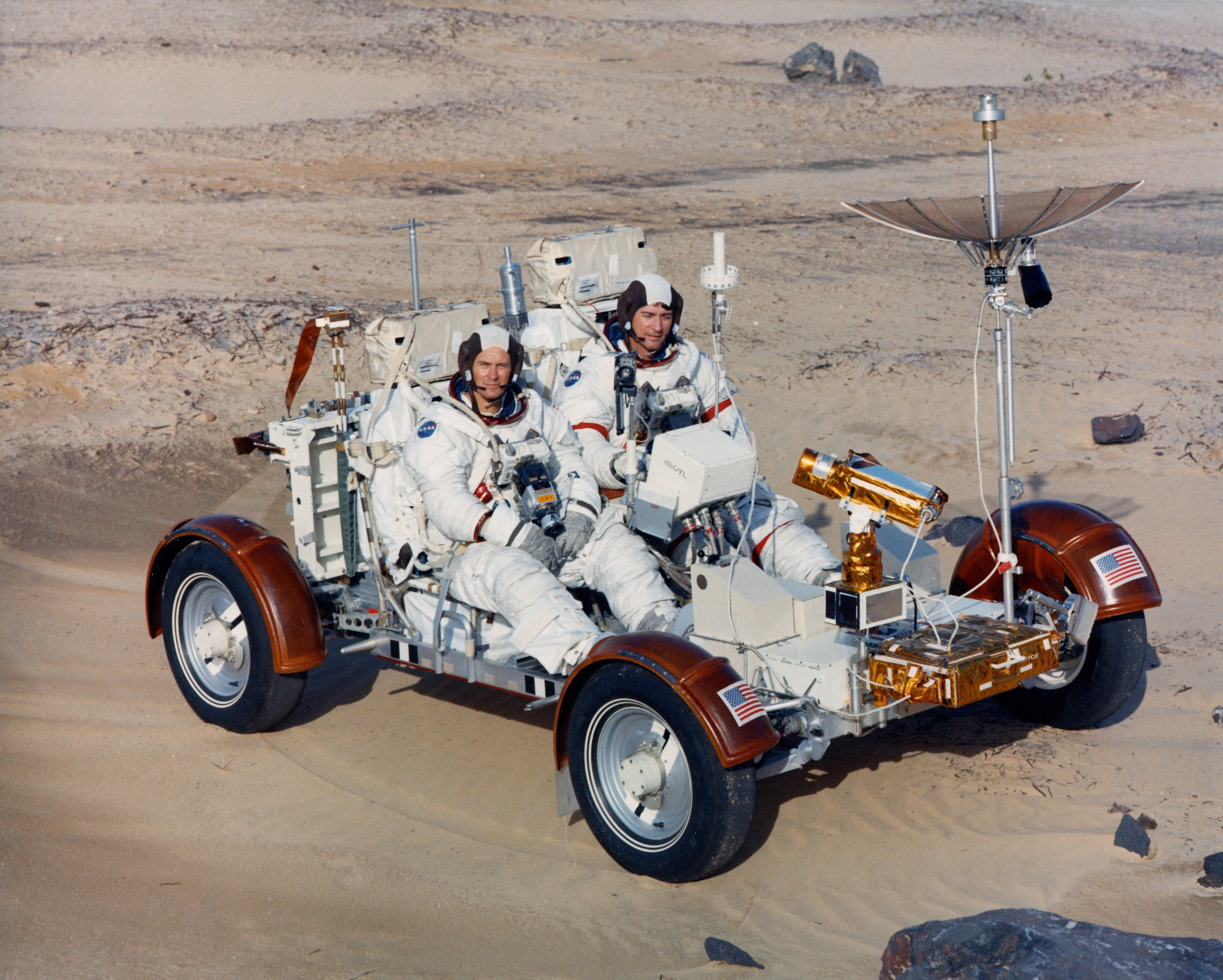 Apollo 16 astronauts John W. Young, right, and Charles M. Duke, Jr., maneuver a training version of the lunar roving vehicle about a field at the Kennedy Space Center simulated to represent the lunar surface. Blasting off for the Moon from the Space Center not earlier than April 16, the astronauts will conduct three expeditions on the lunar surface as command module pilot Thomas K. Mattingly II, orbits the Moon.